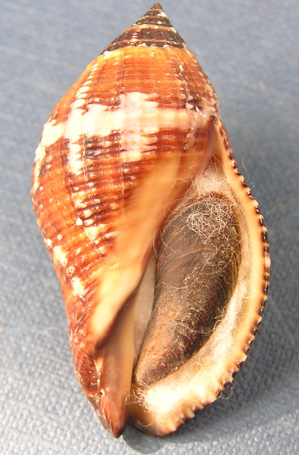 Nassa serta (Bruguière, 1789) , the garland thais; family Muricidae